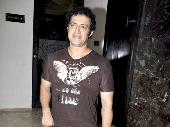 Ninad Kamat at I am the Best Premiere. Photo: FilmiTadka.